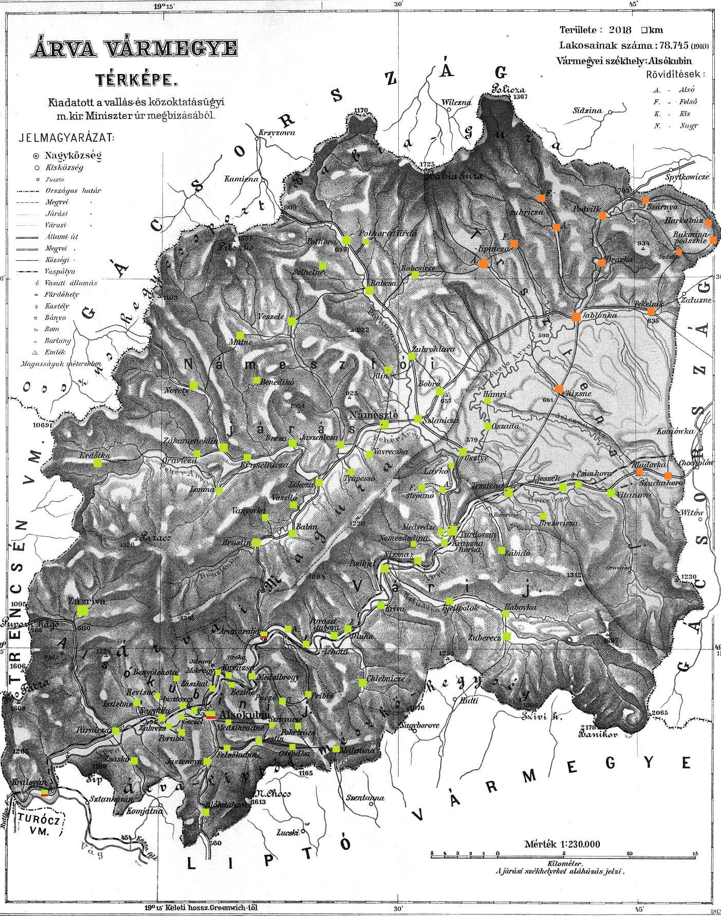 Ethnic map of the county (with data of the 1910 census). Key: light green - Slovaks; orange - Polish; red - Hungarians; pink - Germans. Coloured dots in plain rectangles imply the presence of smaller minority populations (generally more than 100 people or 10%). Multicoloured rectangles imply cities and villages with multi-ethnic populations with the order of the stripes following the ethnic composition of the settlement.